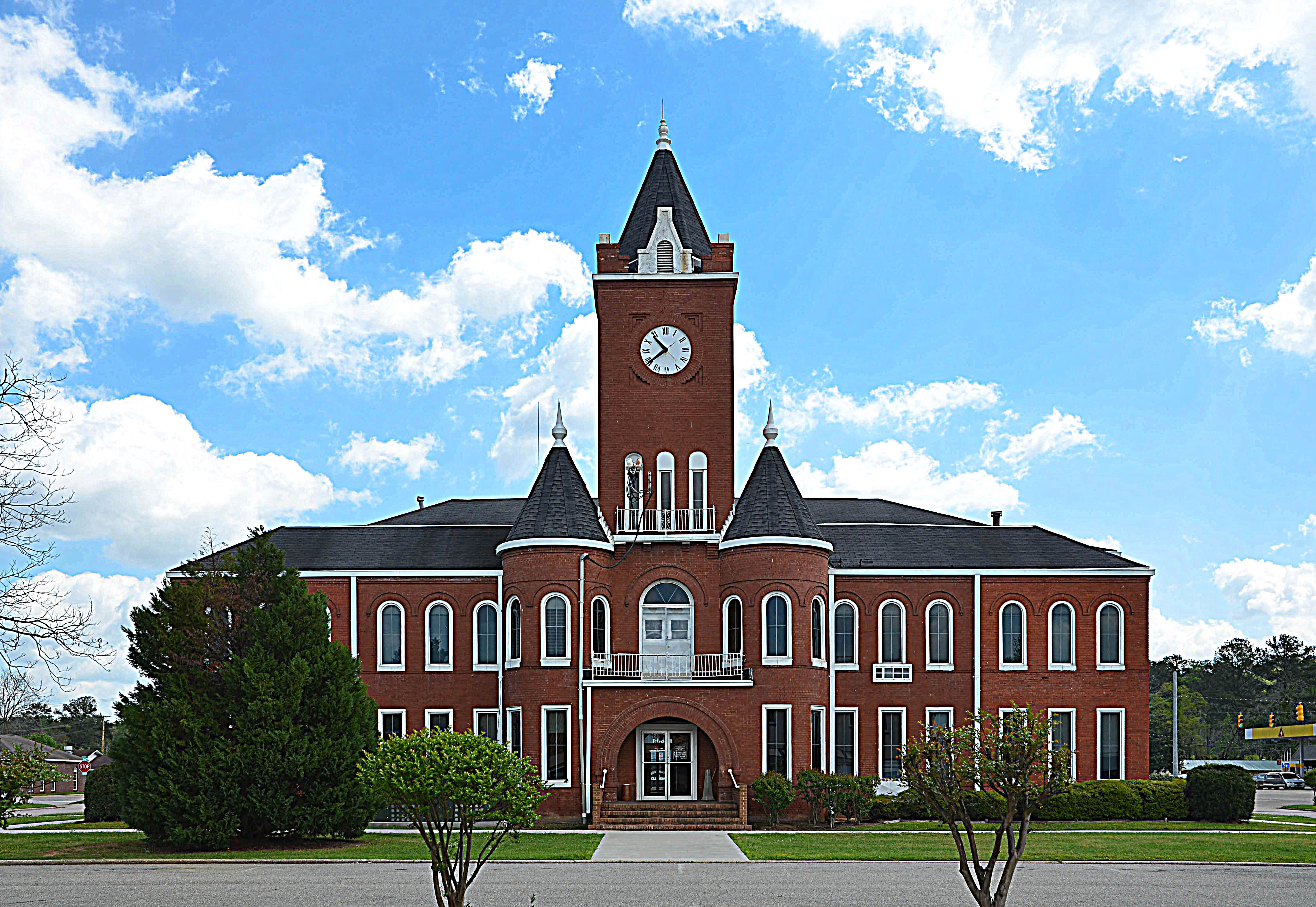 Photo of the Coffee County Courthouse located in Elba, Alabama